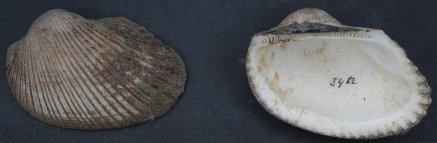 Anadara antiquata (Linnaeus, 1758) , Arcidae, Bivalvia, cropped from File:Naturalis Biodiversity Center - RMNH.MOL.313436 1 - Anadara antiquata (Linnaeus, 1758) - Arcidae - Mollusc shell.jpeg